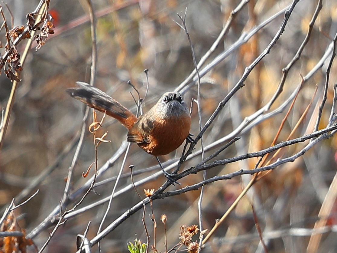 Russet-bellied Spinetail; Marca, Fortaleza Valley, Ancash, Peru